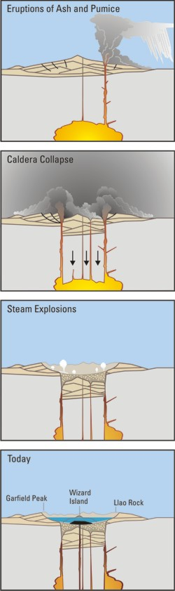 Cataclysmic eruption to present. Eruptions of ash and pumice: The cataclysmic eruption started from a vent on the northeast side of the volcano as a towering column of ash, with pyroclastic flows spreading to the northeast. Caldera collapse: As more magma was erupted, cracks opened up around the summit, which began to collapse. Fountains of pumice and ash surrounded the collapsing summit, and pyroclastic flows raced down all sides of the volcano. Steam explosions: When the dust had settled, the new caldera was 5 miles (8 km) in diameter and 1 mile (1.6 km) deep. Ground water interacted with hot deposits causing explosions of steam and ash. Today: In the first few hundred years after the cataclysmic eruption, renewed eruptions built Wizard Island, Merriam Cone, and the central platform. Water filled the new caldera to form the deepest lake in the United States. Figure modified from diagrams on back of 1988 USGS map “Crater Lake National Park and Vicinity, Oregon.”